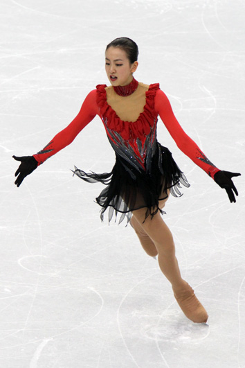 Mao Asada during her free program "Bells of Moscow" at the 2010 Winter Olympics.